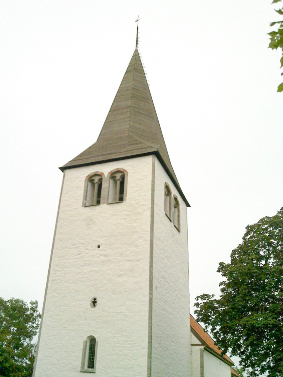 Church of Linde, Gotland, SE